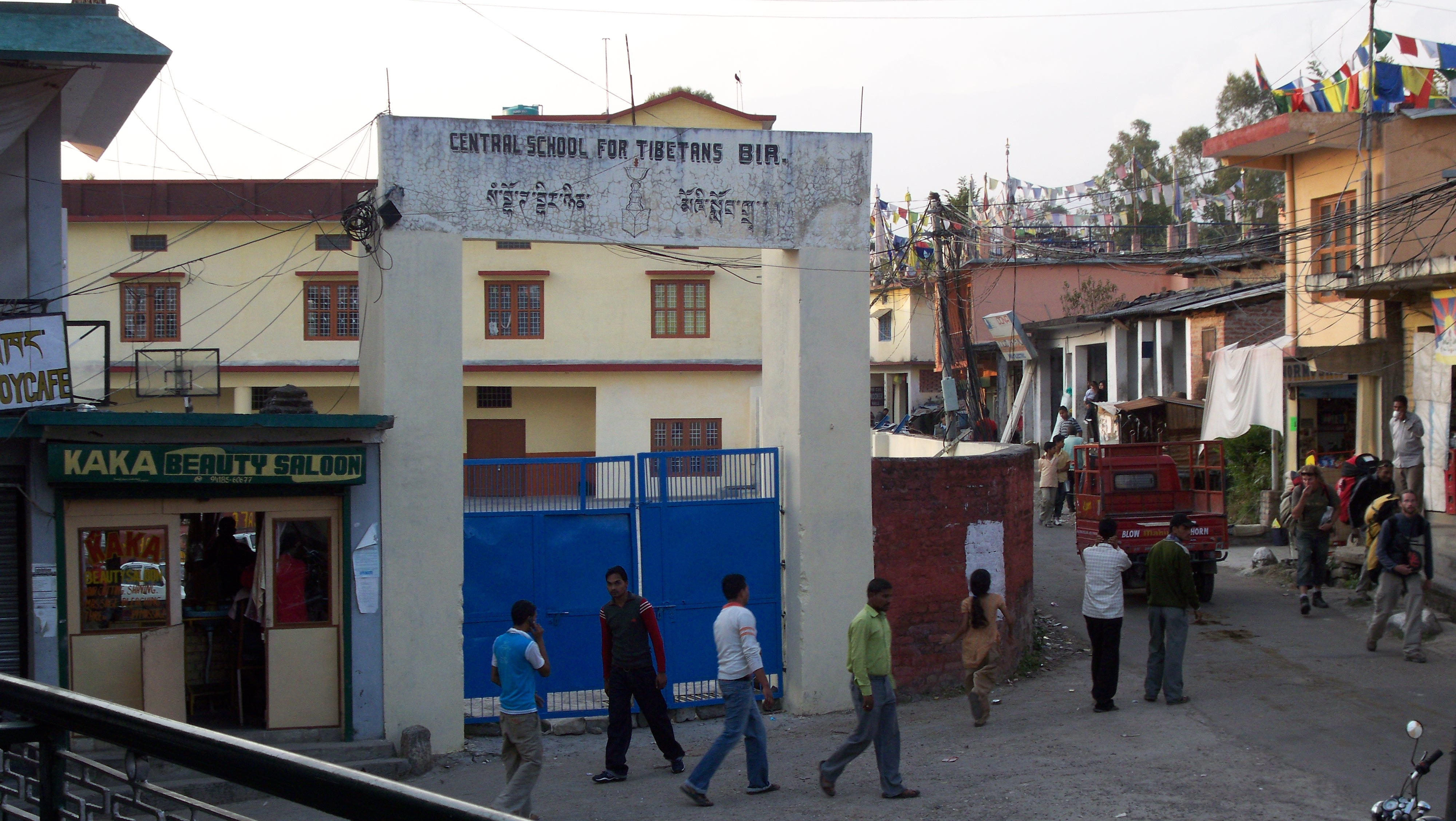 Central School for Tibetans in Bir Tibetan Colony on a main street in Chowgan, India